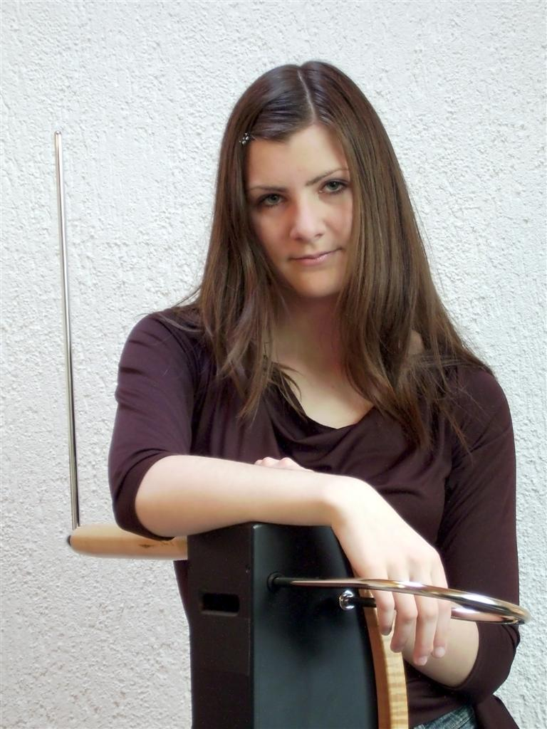 Carolina Eyck am Theremin (Carolina Eyck with Theremin)